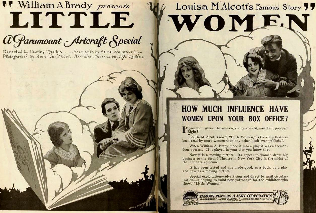 Ad for the American drama film Little Women (1918) with Henry Hull, Isabel Lamon, Dorothy Bernard, and Conrad Nagel, on pages 140 and 141 of the January 11, 1919 Moving Picture World.